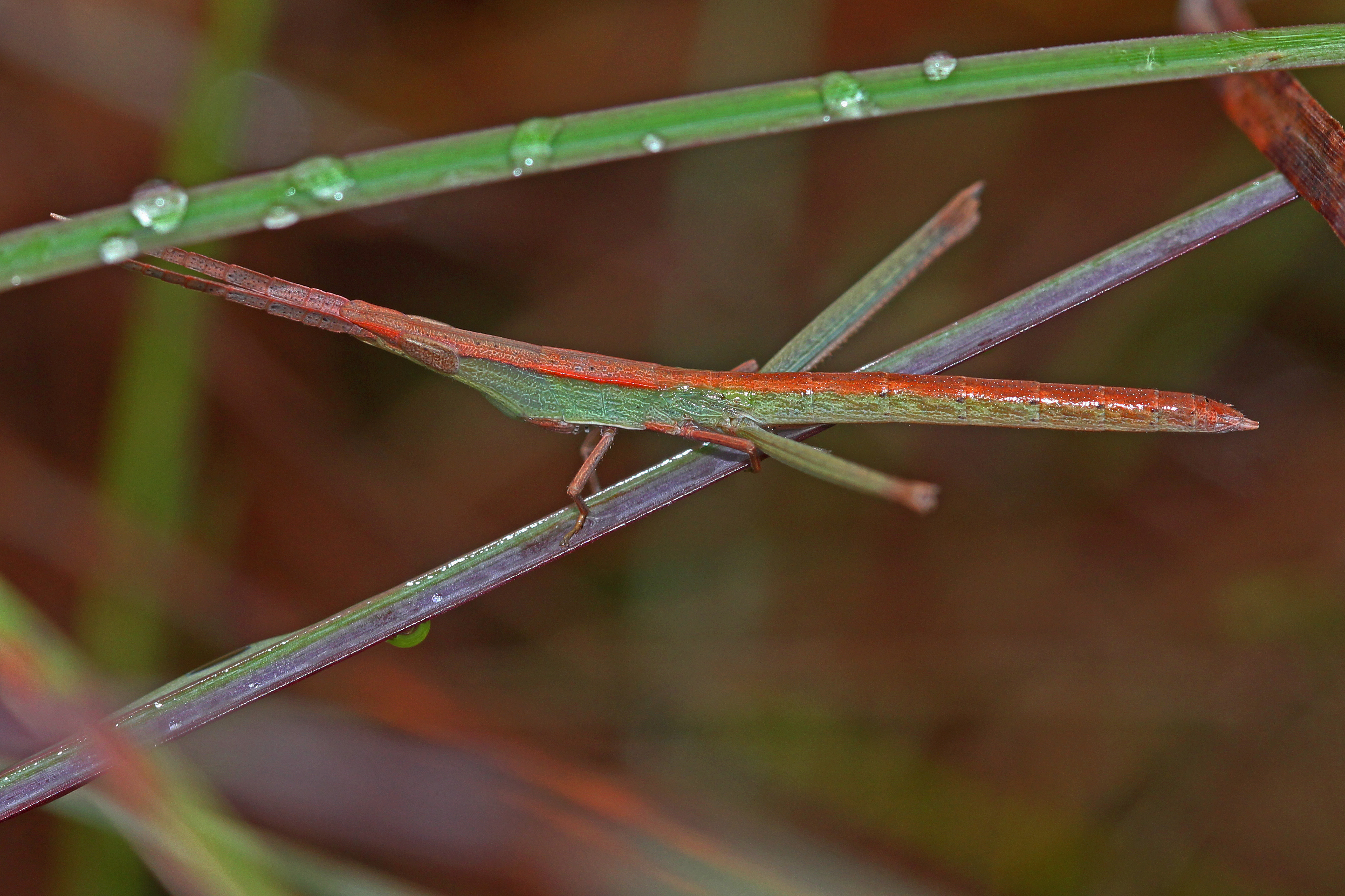 Longheaded Toothpick Grasshopper - Achurum carinatum, Long Pine Key, Everglades National Park, Homestead, Florida.